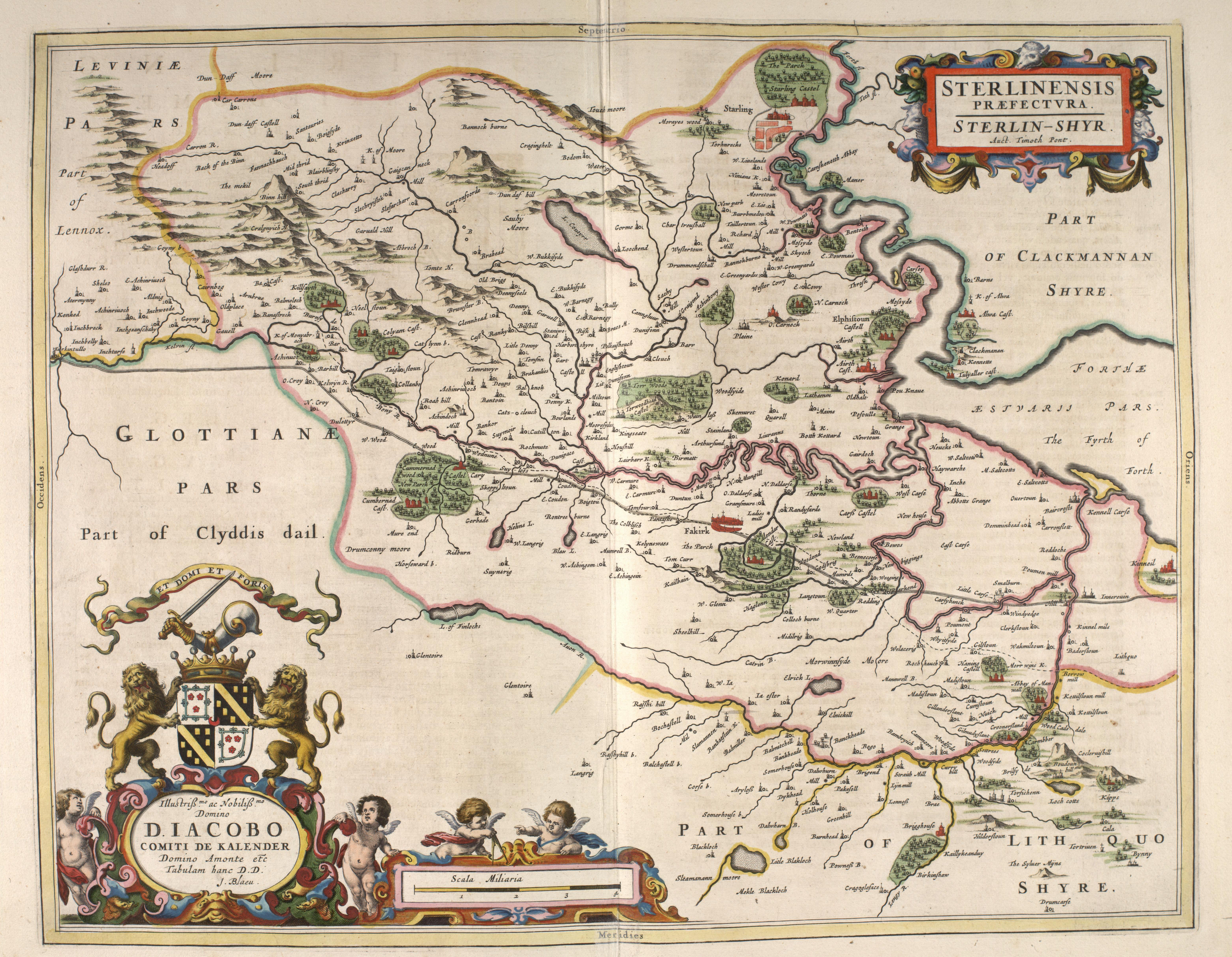 STERLINENSIS - Stirlingshire